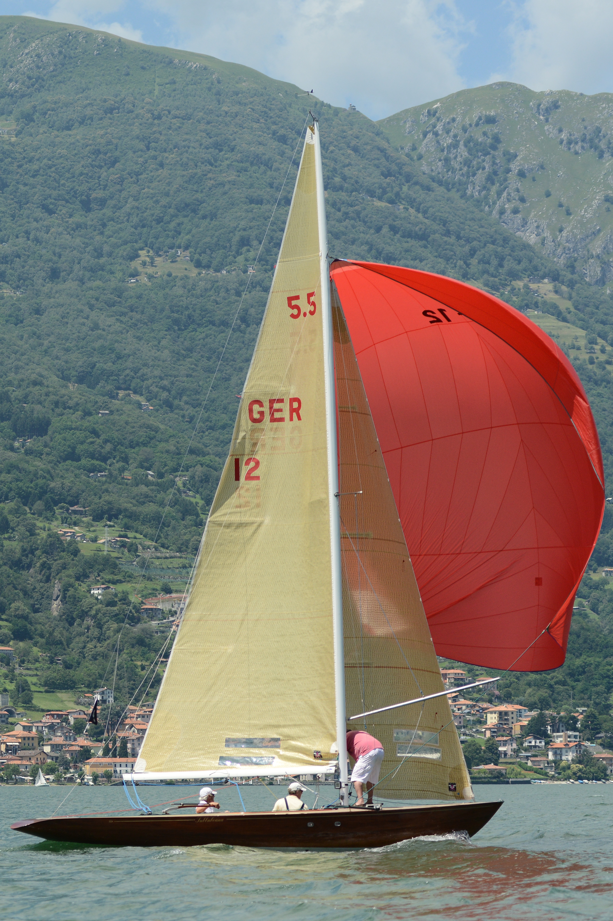 5.5 Metre GER 12 at Lake Como